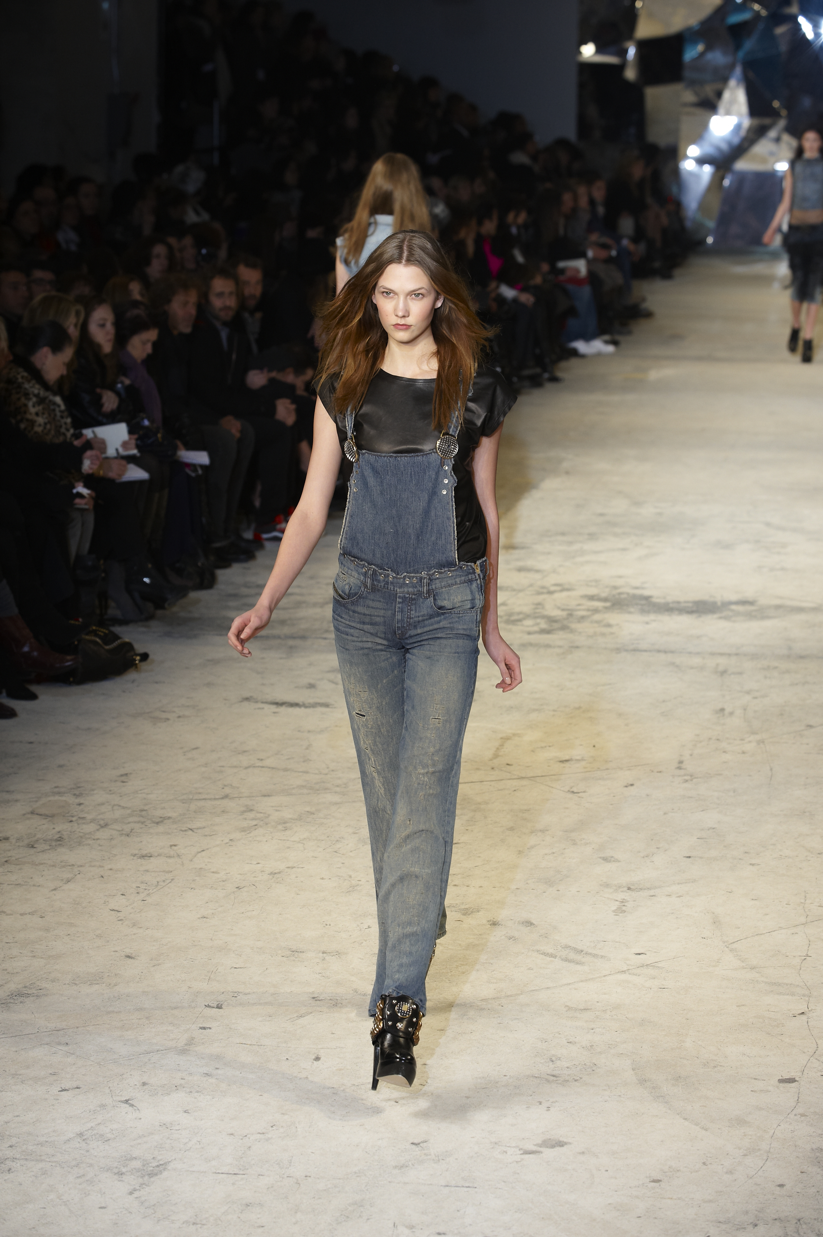 A model walks the runway at the Diesel Black Gold Fall/Winter 2010 show at New York Fashion Week, February 2010.